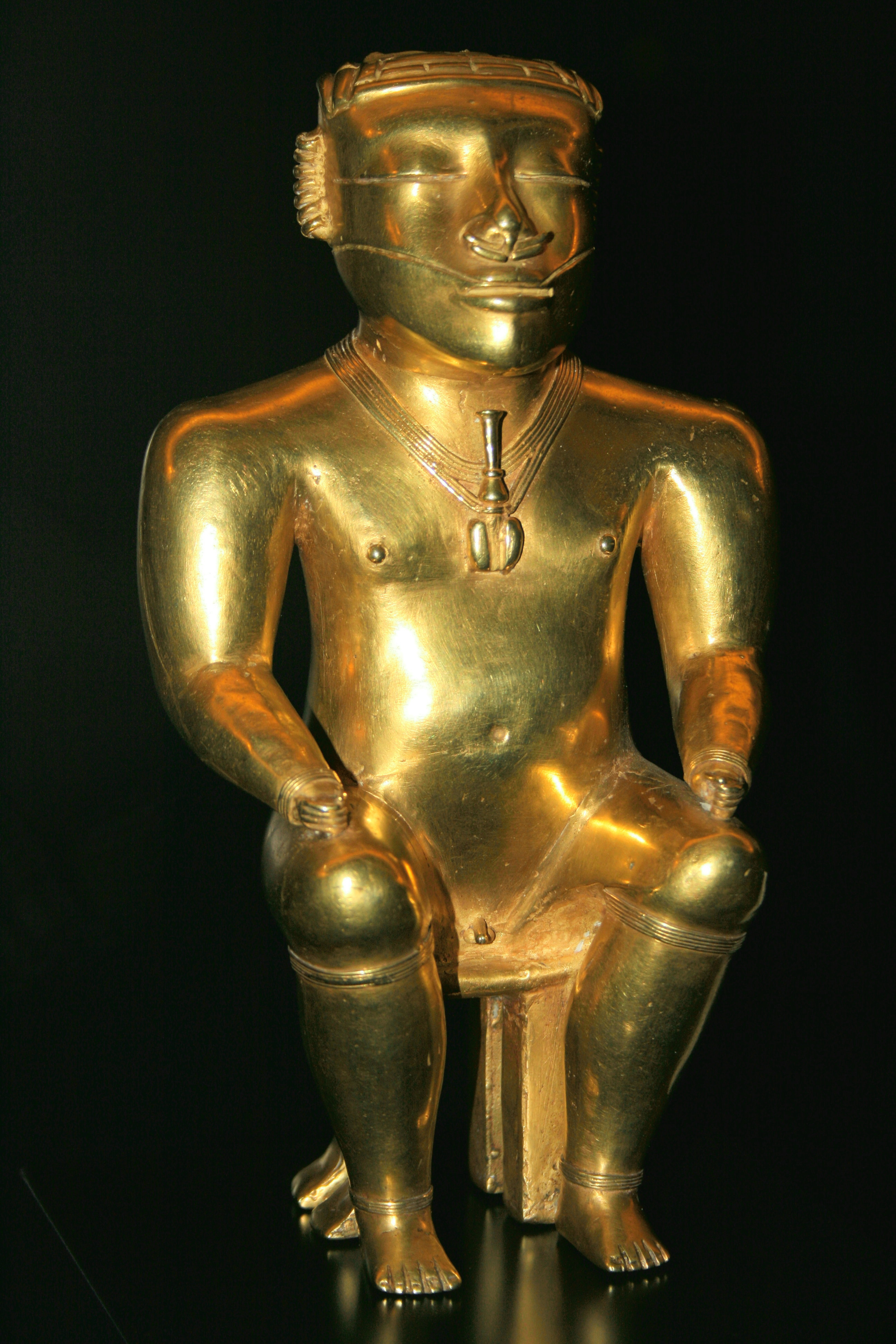 Golden statuette from the so-called «Quimbaya Treasure», a collection of 200 golden objects (500-1000 AD) given to Spain as a gift by the Columbian government in 1893. Museo de américa, Madrid, Spain